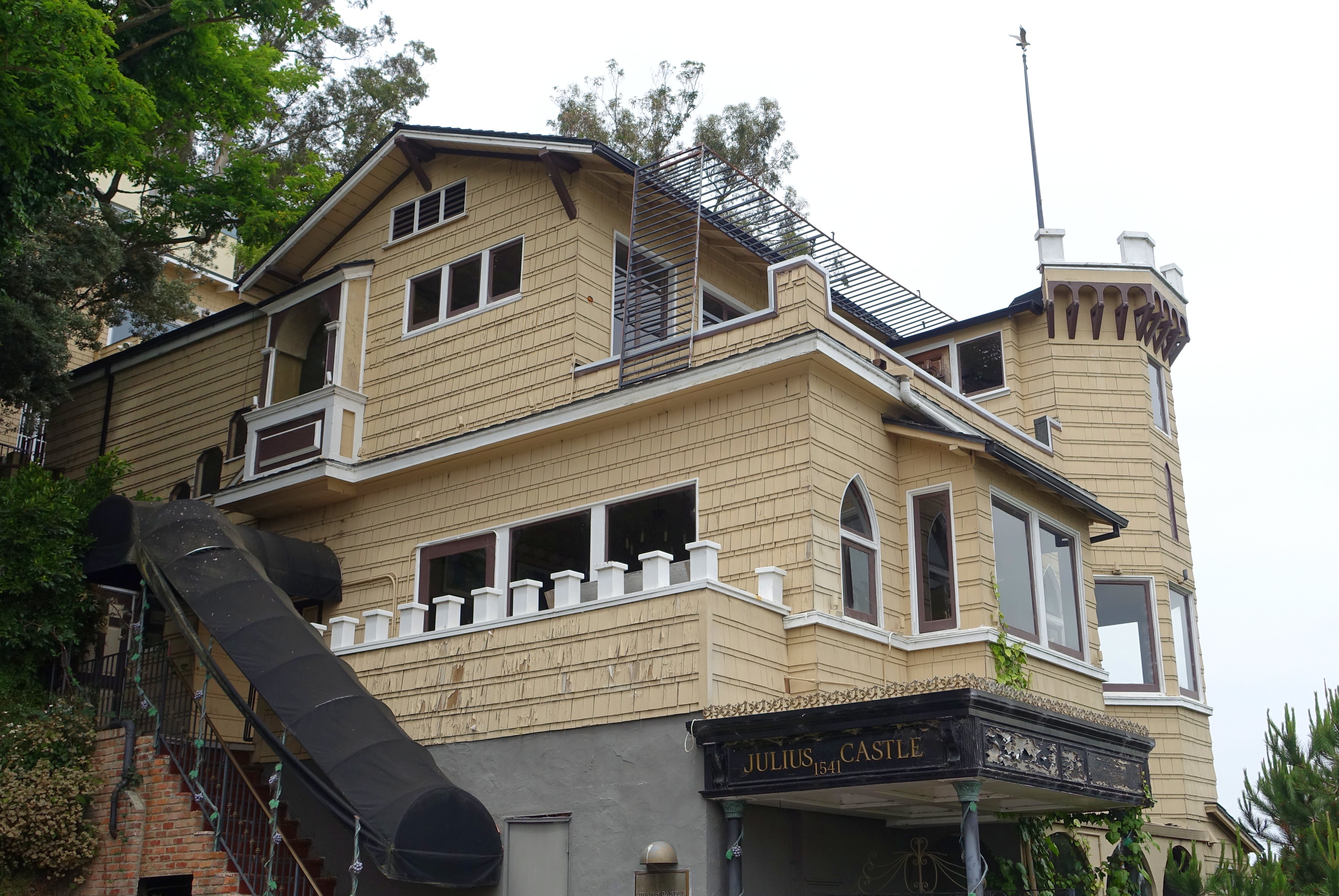 Julius' Castle (San Francisco Landmark #121) as seen from Filbert Steps, a pedestrian stairway that forms part of Filbert Street, San Francisco, California, USA.